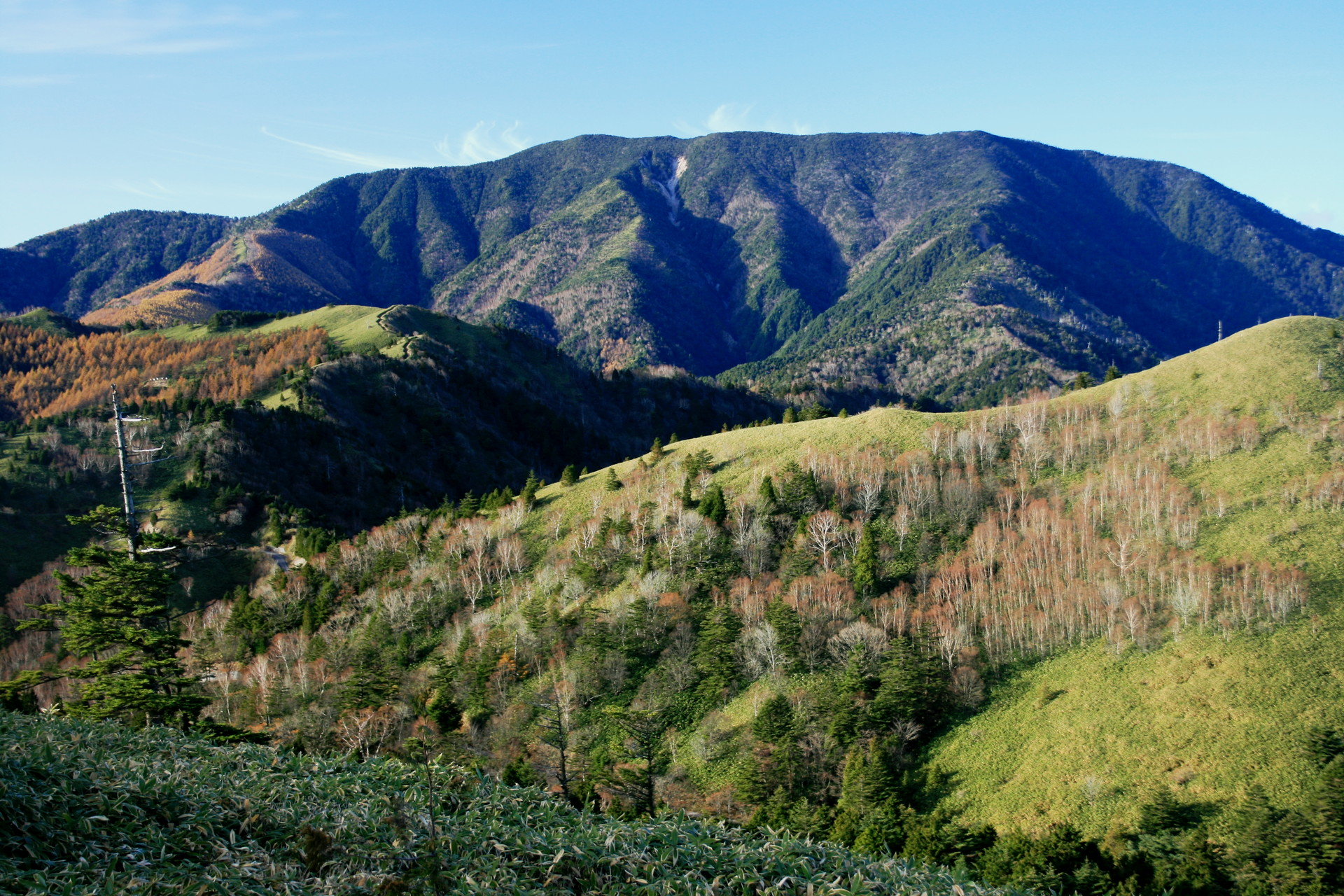 Mount Ena as seen from the northeast.